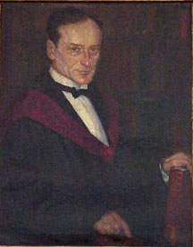 Presented by Alumni and Friends In Commemoration of Twenty-Five Years of Service Departments of Mathematics and Philosophy Oct. 15, 1927. Painted by Joseph Margulies. CCNY Library collection.